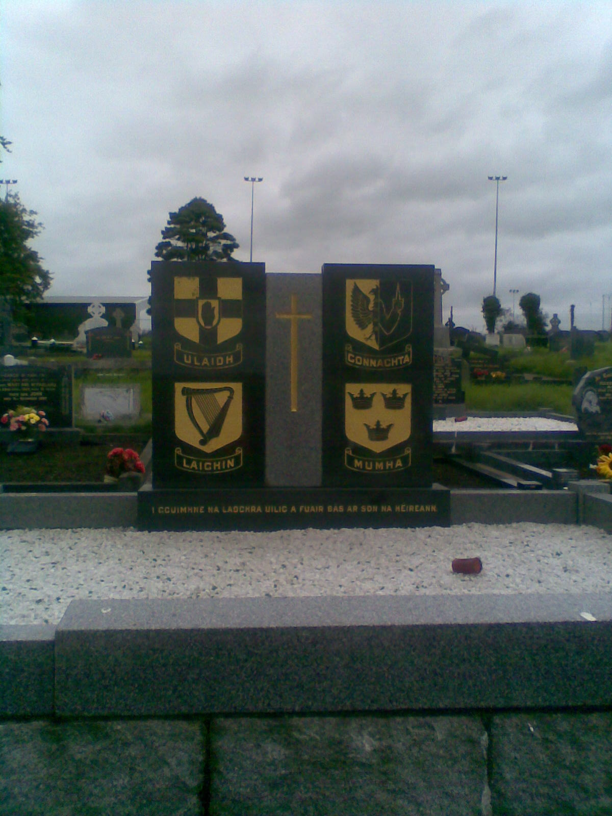 Commemorative stone, Naomh Padraig Graveyard, Ballymacnab, Armagh.